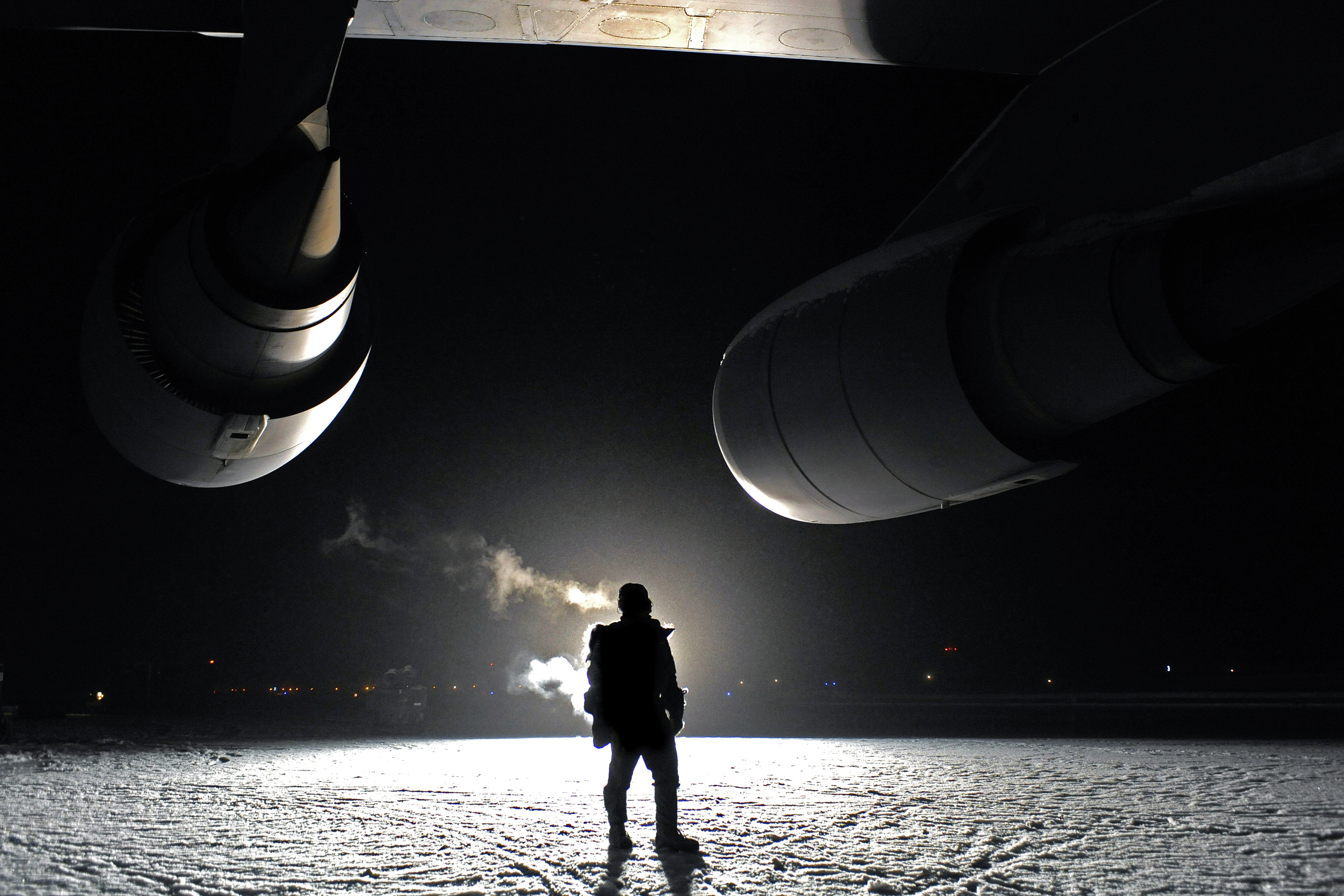 Rear view of two F138-GE-100 engines of an Lockheed C-5M during a cold weather test.